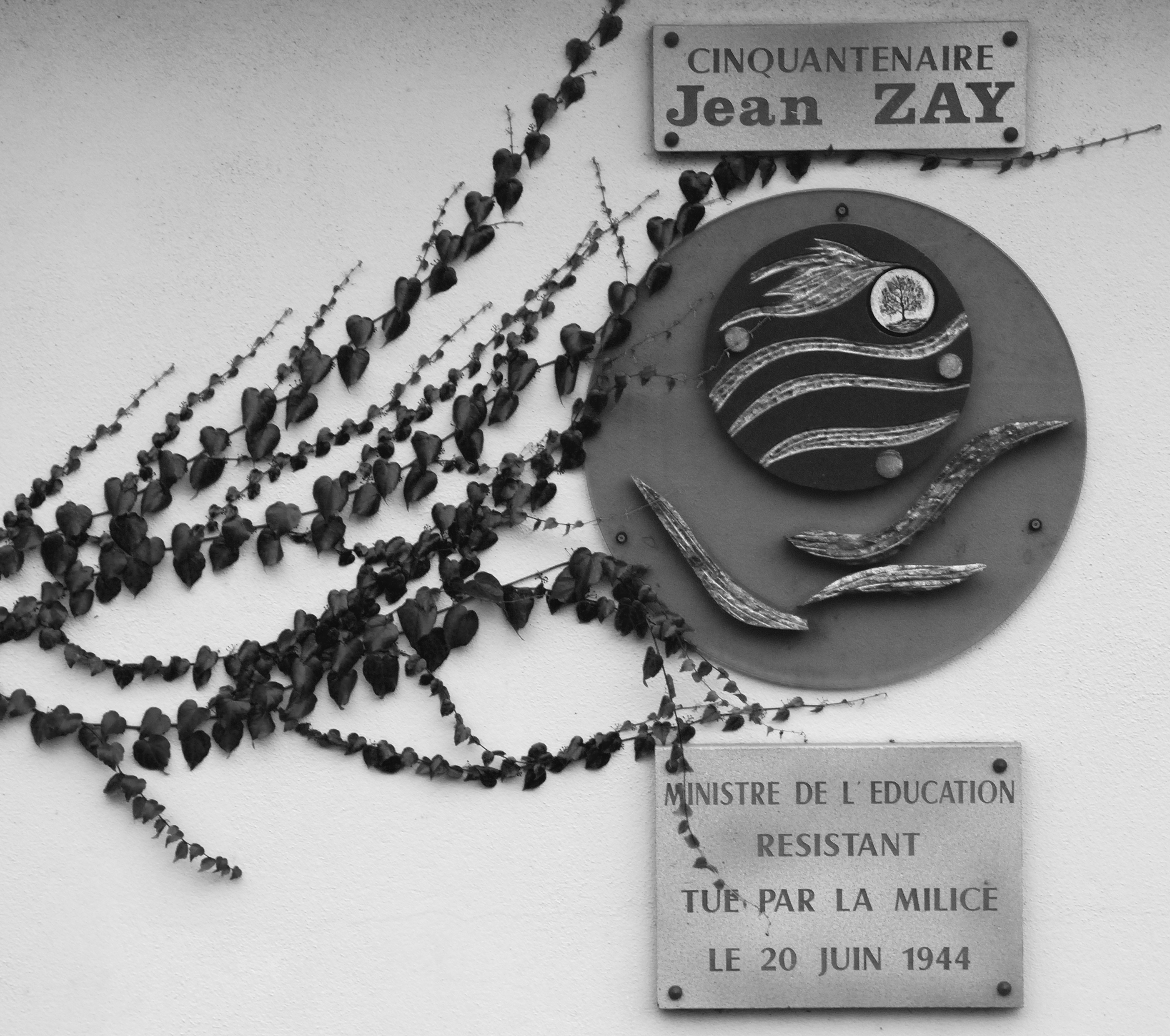 Beaumont : Tribute to Jean Zay in the primary school Jean Zay (Puy-de-Dôme, France).